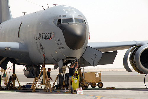 Southwest Asia-- Staff Sgt. Brett Rutter a aircraft recovery techician assigend to the 380th Expeditionary Aircraft Maintenance Squadron connects the nose landing gear door rods in preparation for a gear retraction operational check, Wednesday. Segerant Rutter and w of three maintainers and one safety observer tested landing gear . All four are attached to the 380th Air Expeditionary Wing in support of Operation Iraqi Freedom, Operation Enduring Freedom, and the Combined Task Force--Horn of Africa